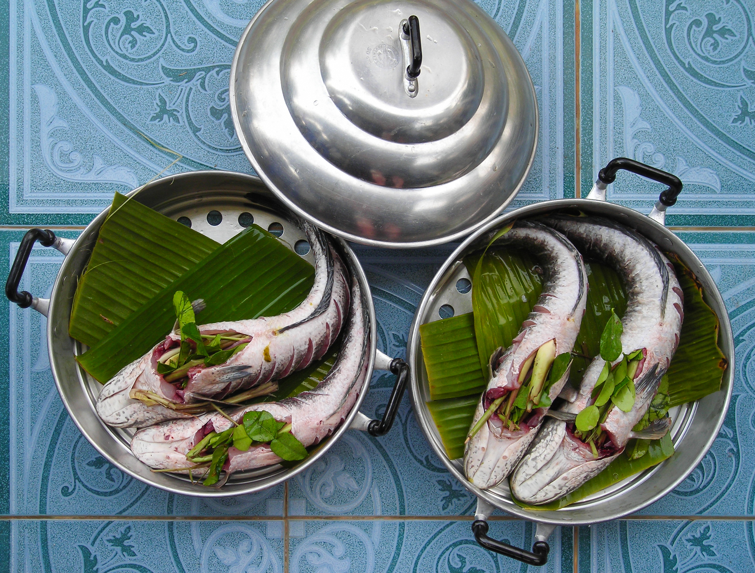 Fish stuffed with Thai herbs, prepared to be steamed on banana leaves, seen in Thailand. Thai: Pae cha pashonn. The fish used is snakehead fish, Channa striata (Thai: ปลาช่อน 'pla chon')